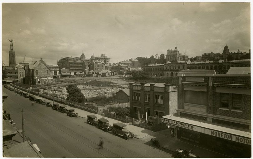 Anzac Square Memorial Site, Brisbane, 21 August 1929, looking west along Adelaide Street from approx the intersection of Adelaide and Edwards Streets